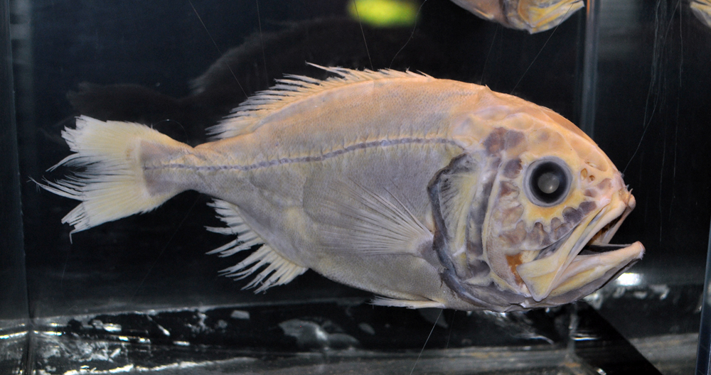 Hoplostethus atlanticus